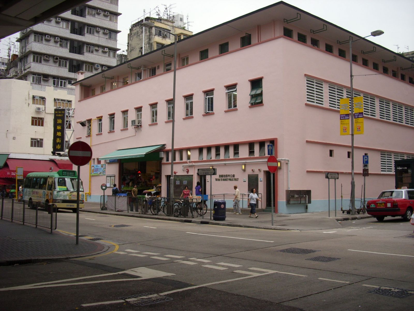 Yaumatei Market in Hong Kong